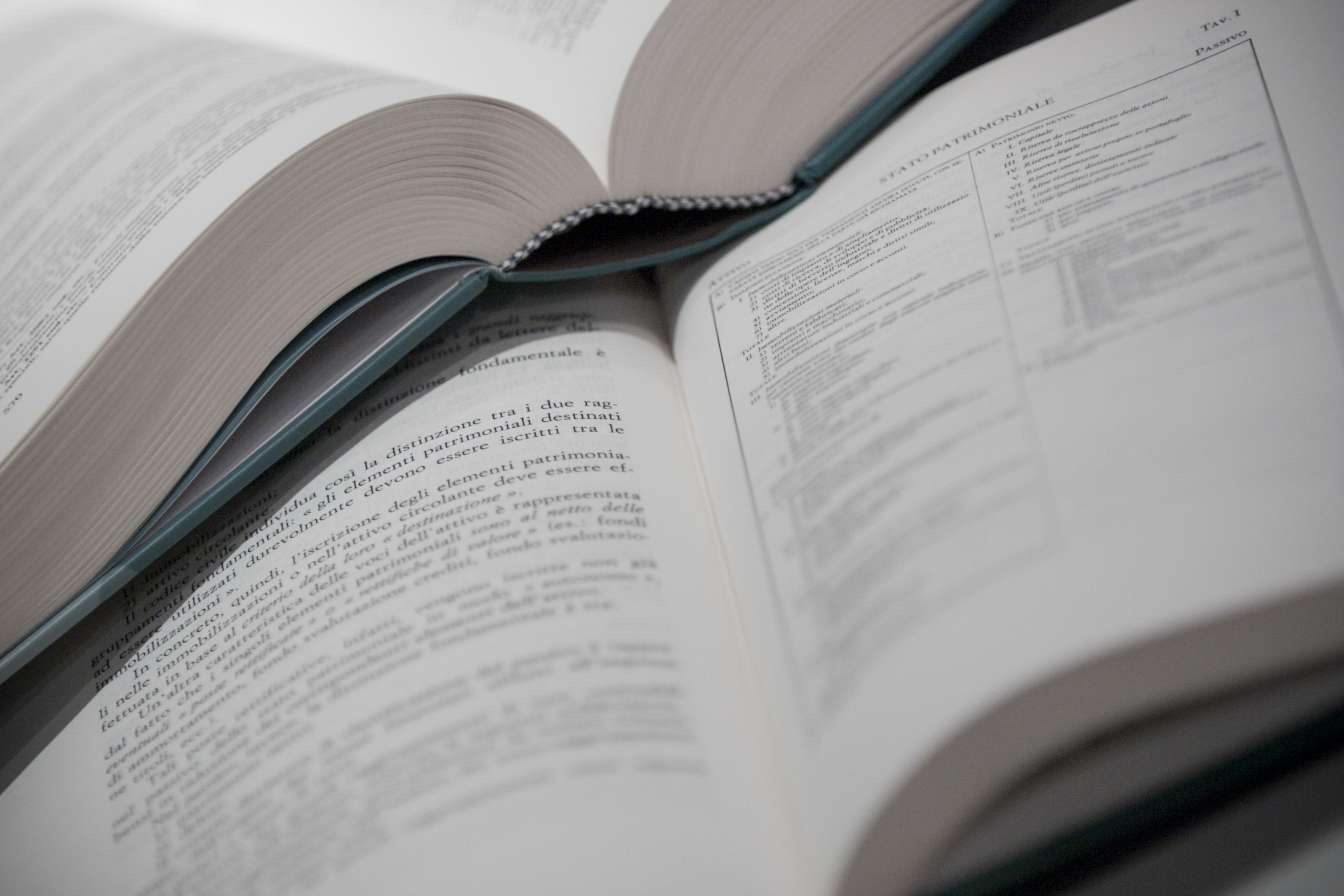 Two Italian legal / accounting books (on Stato Patrimoniale) lie open, one on top of the other. Only a few lines of the underlying book's text are legible because of the narrow depth of field